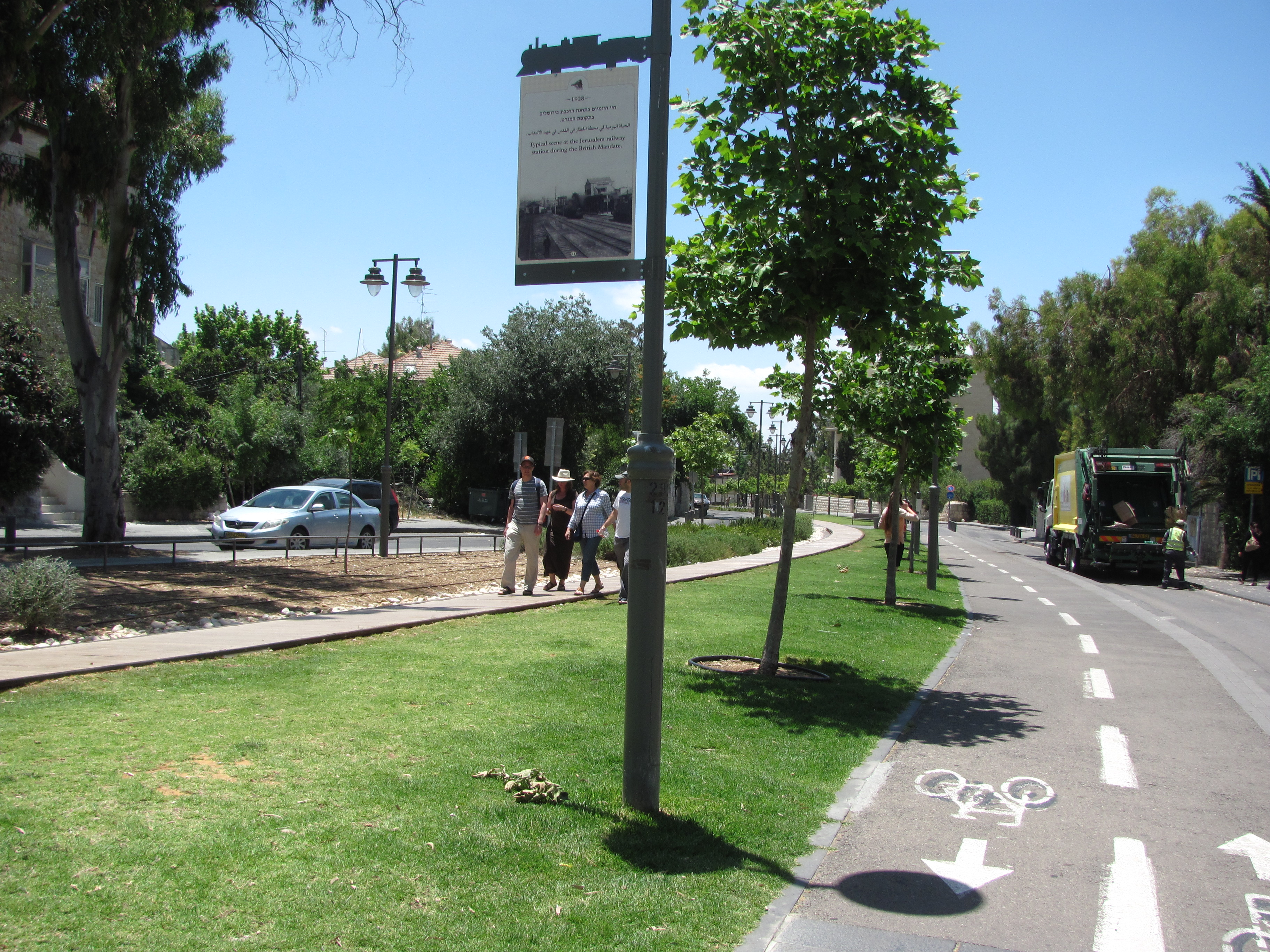 Train Track Park (Park HaMesila) near German Colony, Jerusalem